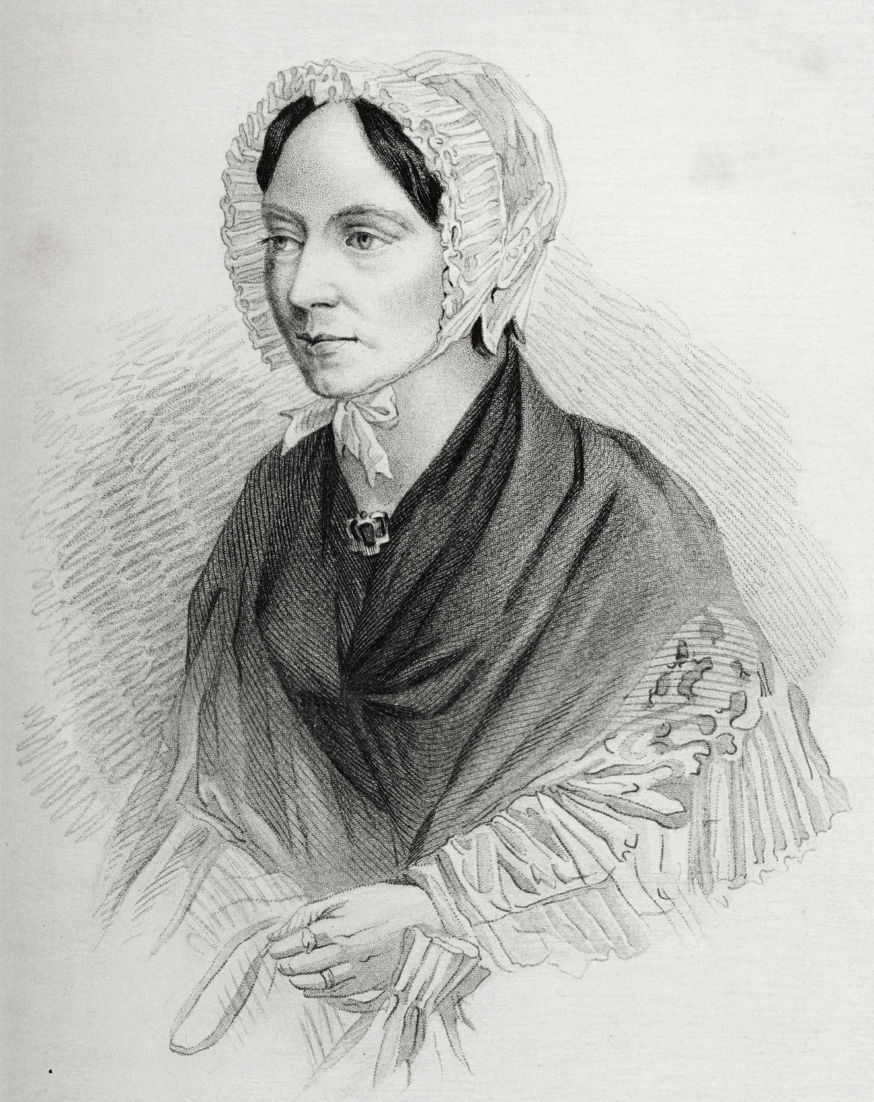 Portrait sketch of Eliza Fraser.